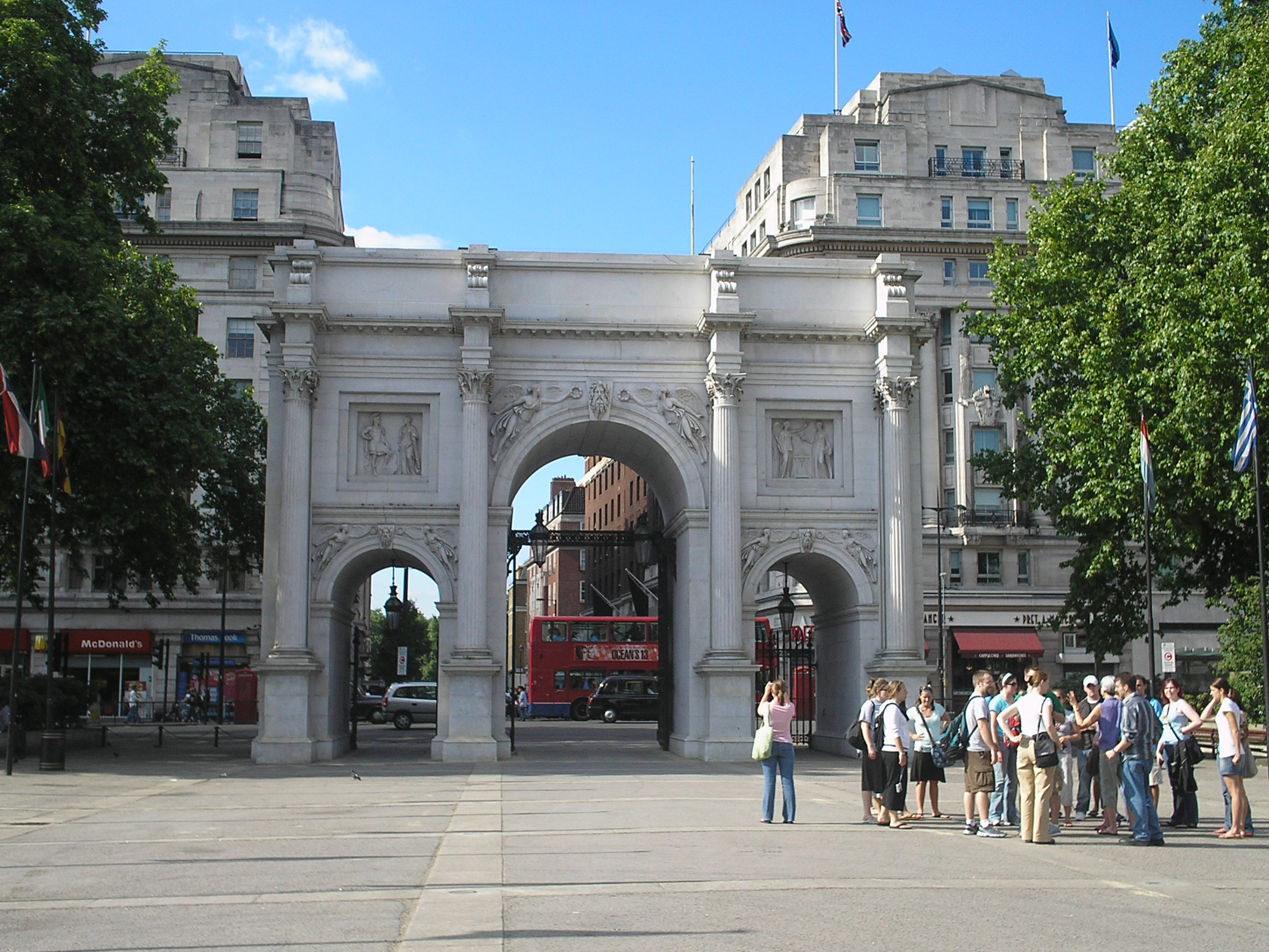 Marble Arch, London